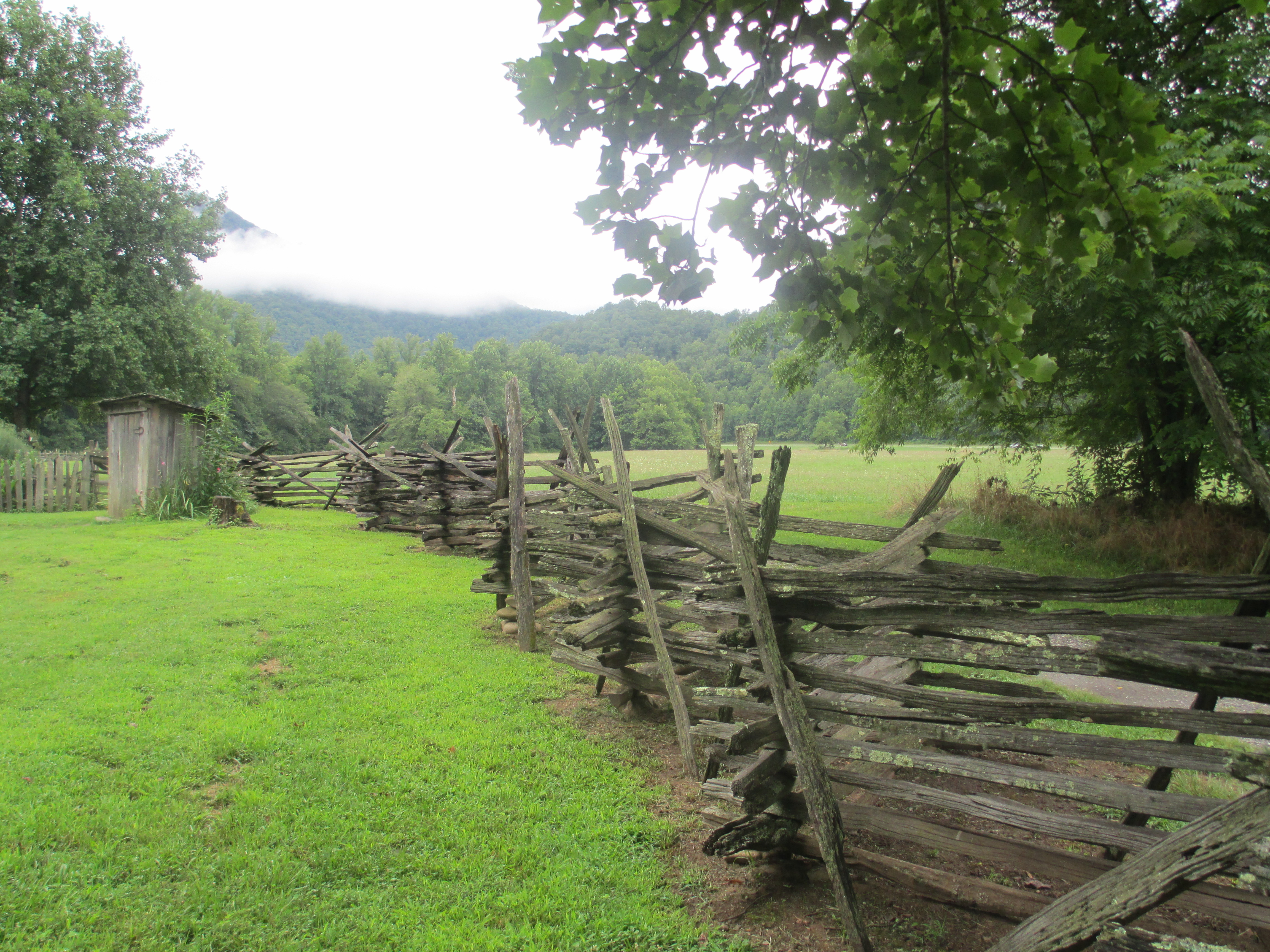 I took photo of fences at Mountain Farm Museum in GSMNP with Canon camera.